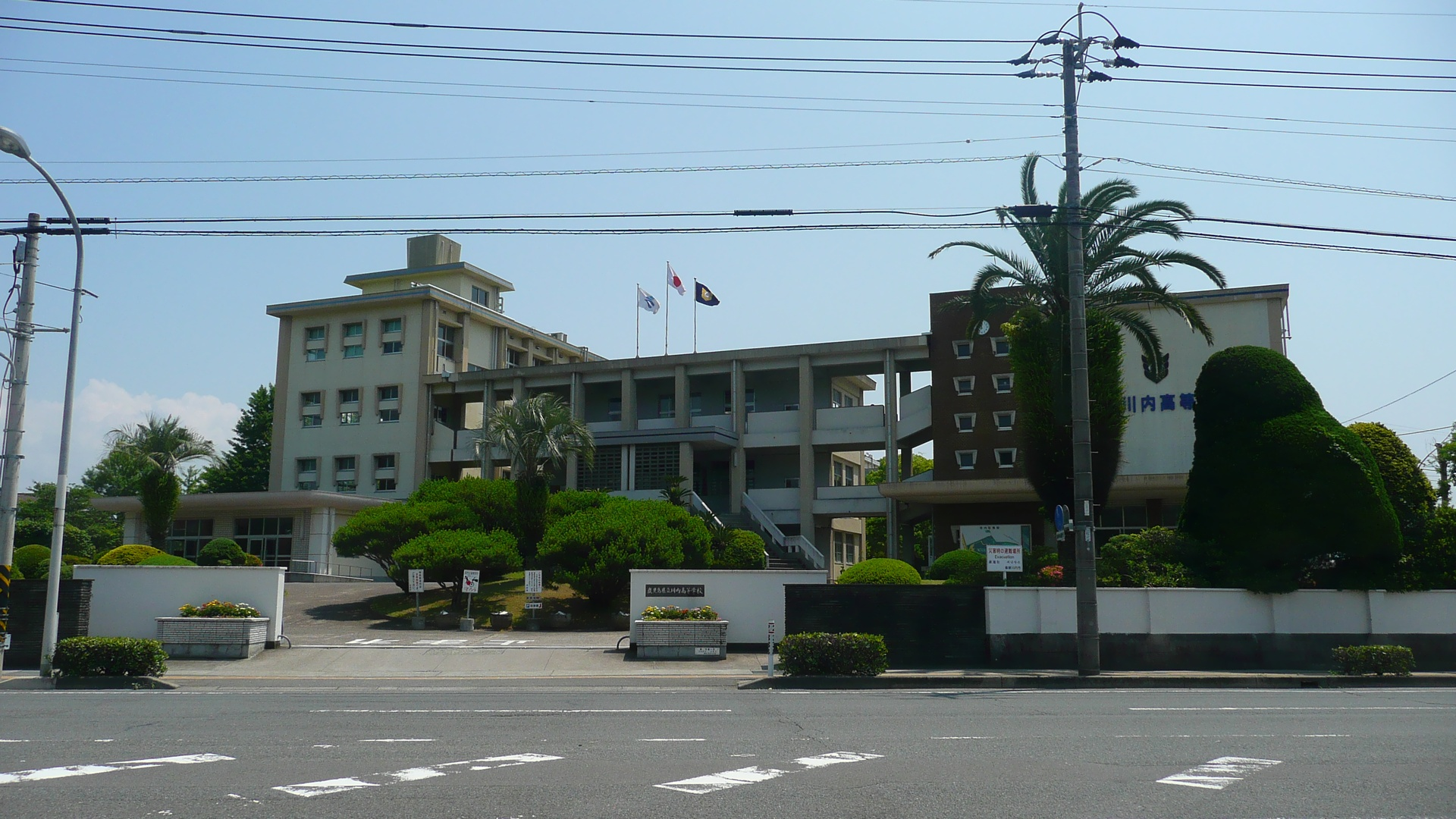 Sendai High School (Satsumasendai City, Kagoshima, Japan)